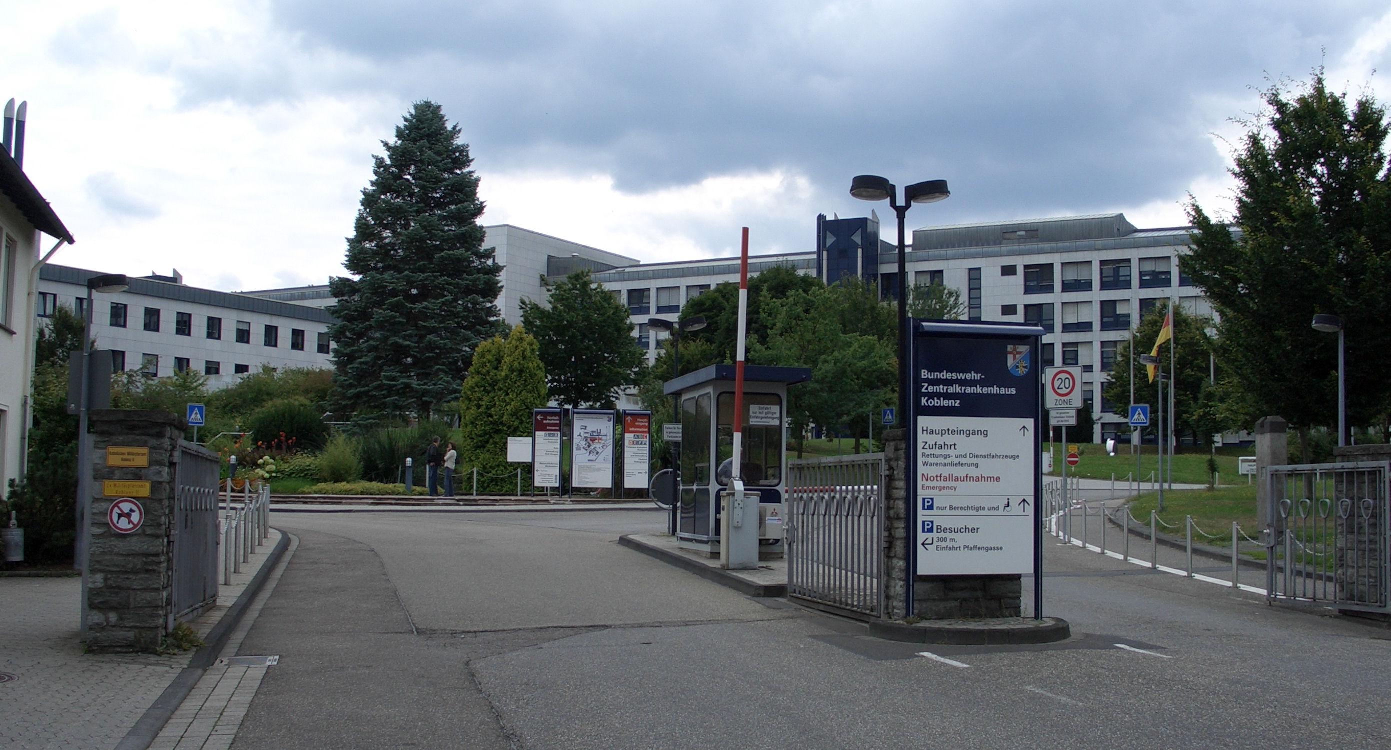 Clinical centre of the Bundeswehr in Koblenz